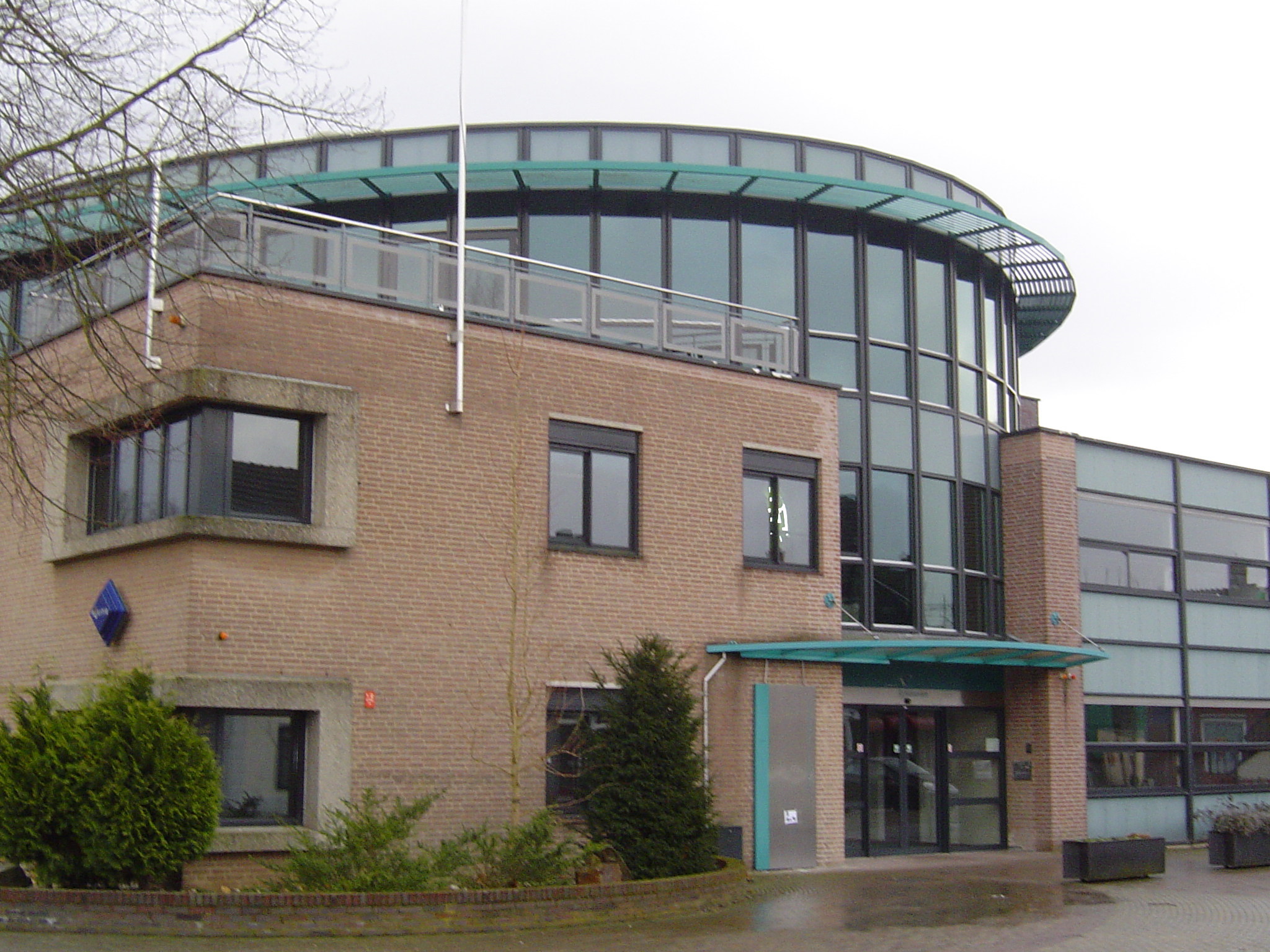 Gemeentehuis Rijnwaarden - Lobith, The Netherlands